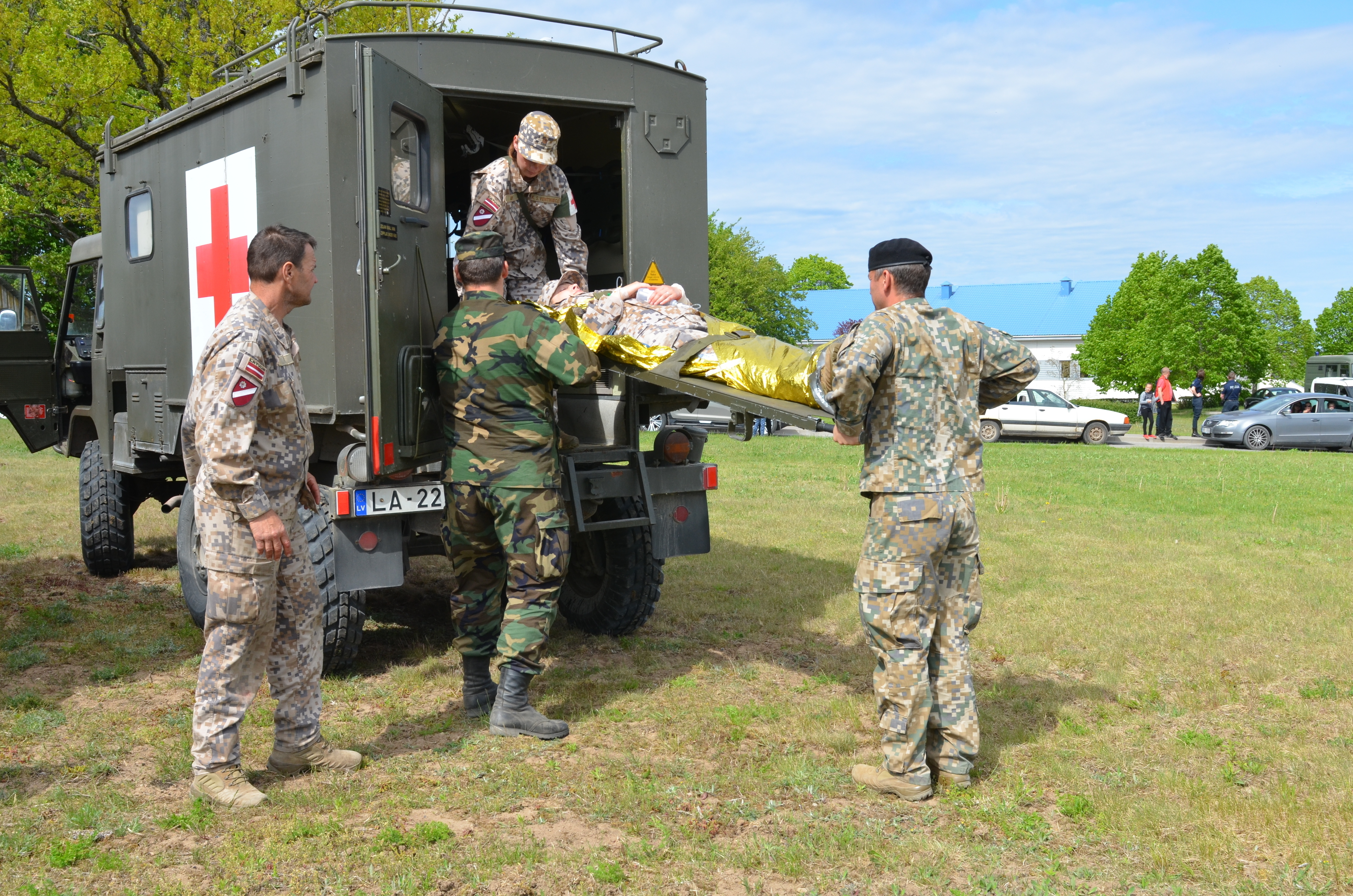 Members of the Latvian Zemessardze or National Guard 45th Logistics Battalion, remove a volunteer patient from a military ambulance in a field at Kuldiga Hospital in Kuldiga, Latvia, May 27. The unit participates in an scenario-based exercise which aids hospitals and the national guard units into responding to emergencies. The volunteer patients are cared for by first responders, medical personnel, local national guard and fire department members before being driven to a collection point and unloaded for flight transportation by U.S. Soldiers. The U.S. Soldiers are from 3rd General Support Aviation Battalion, currently in Leilvarde Air Base, Latvia, to support Operation Atlantic Resolve, which is a U.S. -led endeavor to fulfill the U.S. commitment to NATO by rotating throughout Europe and training alongside NATO Allies and partners. (U.S. Army photo by Sgt. Shiloh Capers)